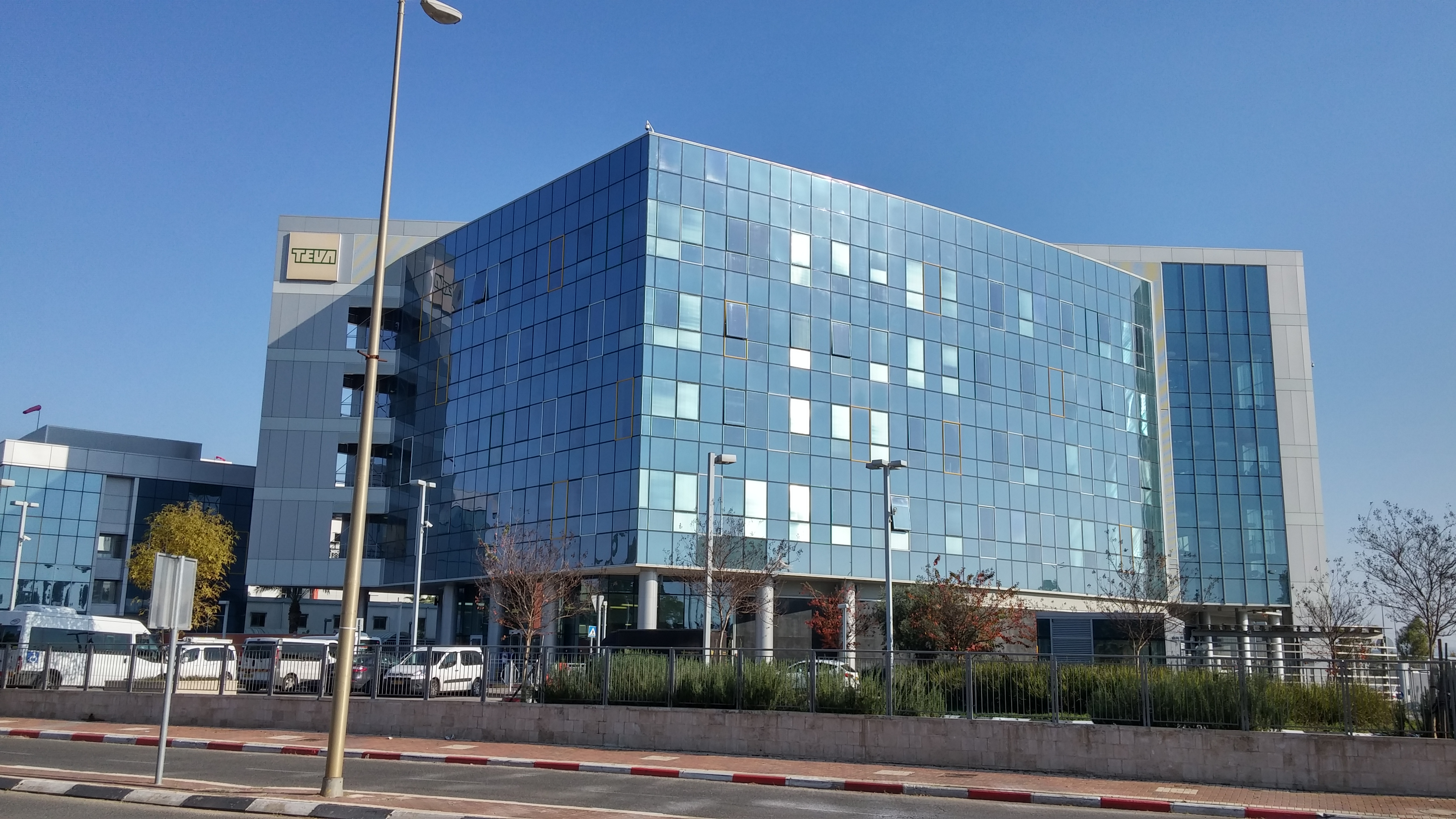 Teva factory in Kfar Sava